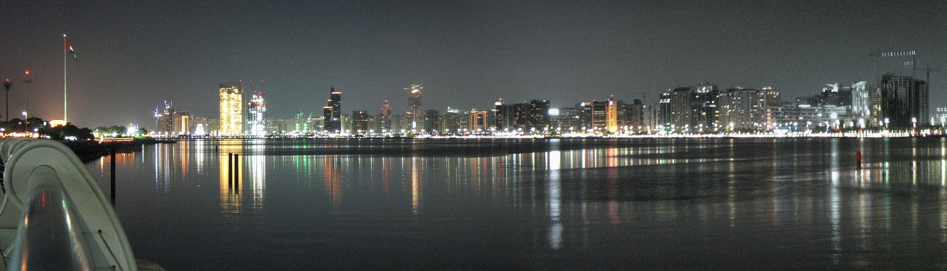 Skyline of Abu Dhabi emirate viewed from the Marina.